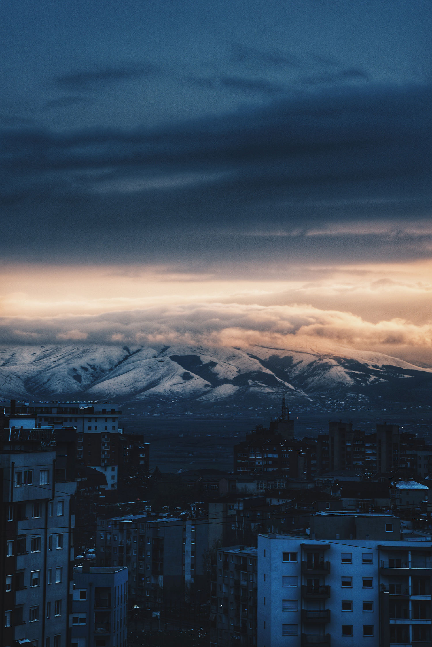 Golesh mountains as seen from Pristina, Kosovo